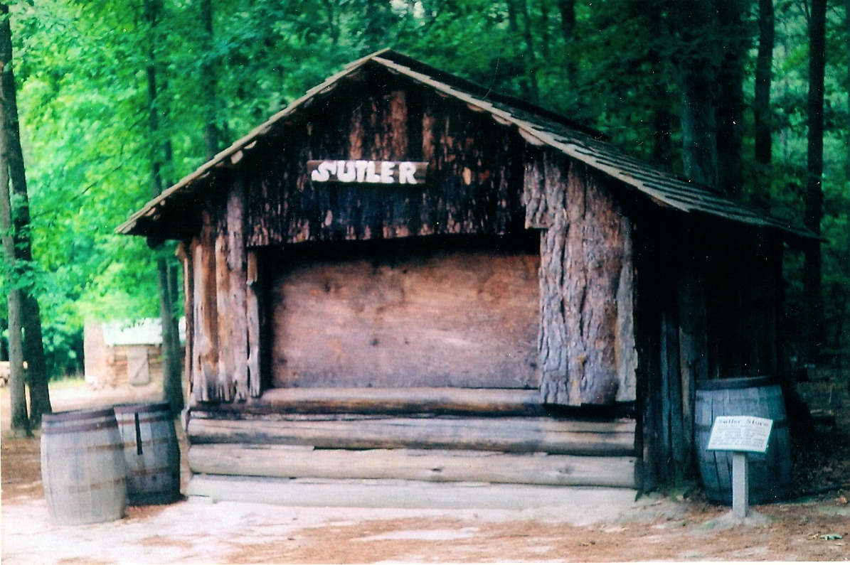 Restored Union sutler's hut, Petersburg National Battlefield, Virginia, USA